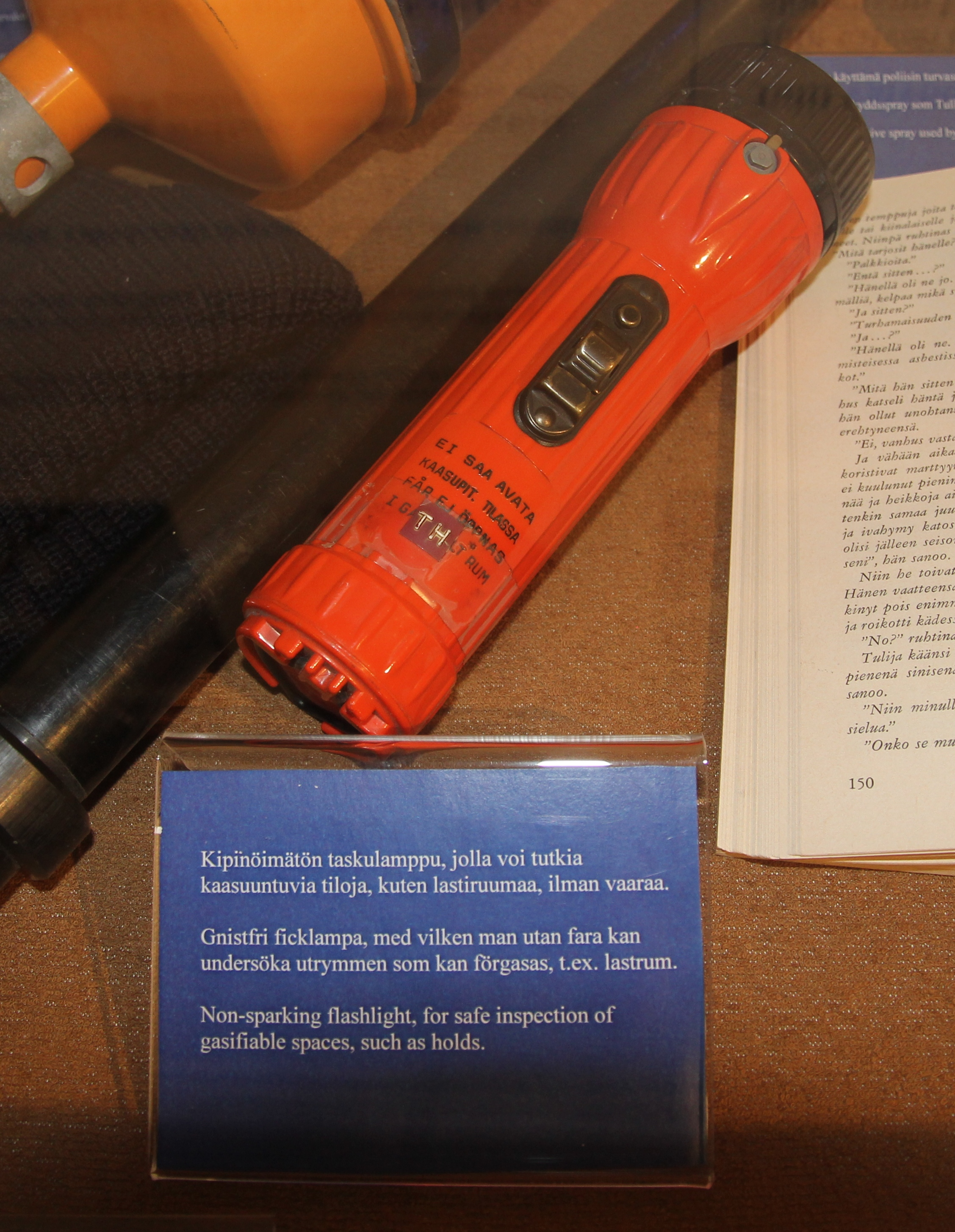 Non-sparking flashlight, for safe inspection of gasifiable spaces such as holds. Photographed in Finnish customs museum.